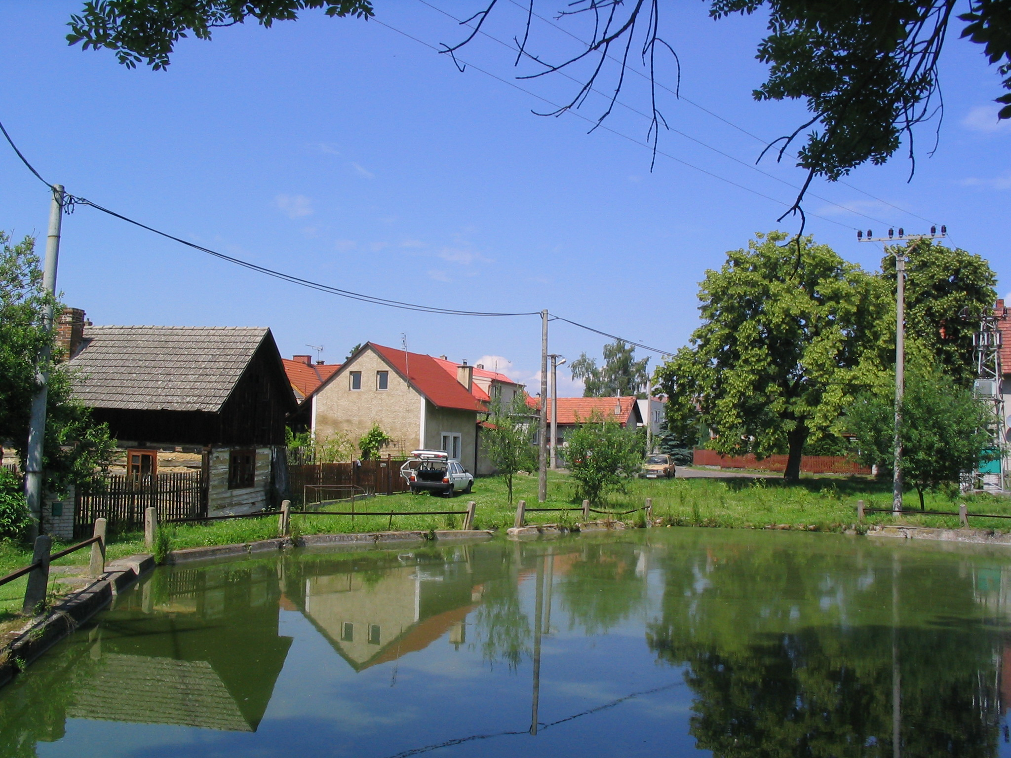 Village of Neveklovice, Czech Republic